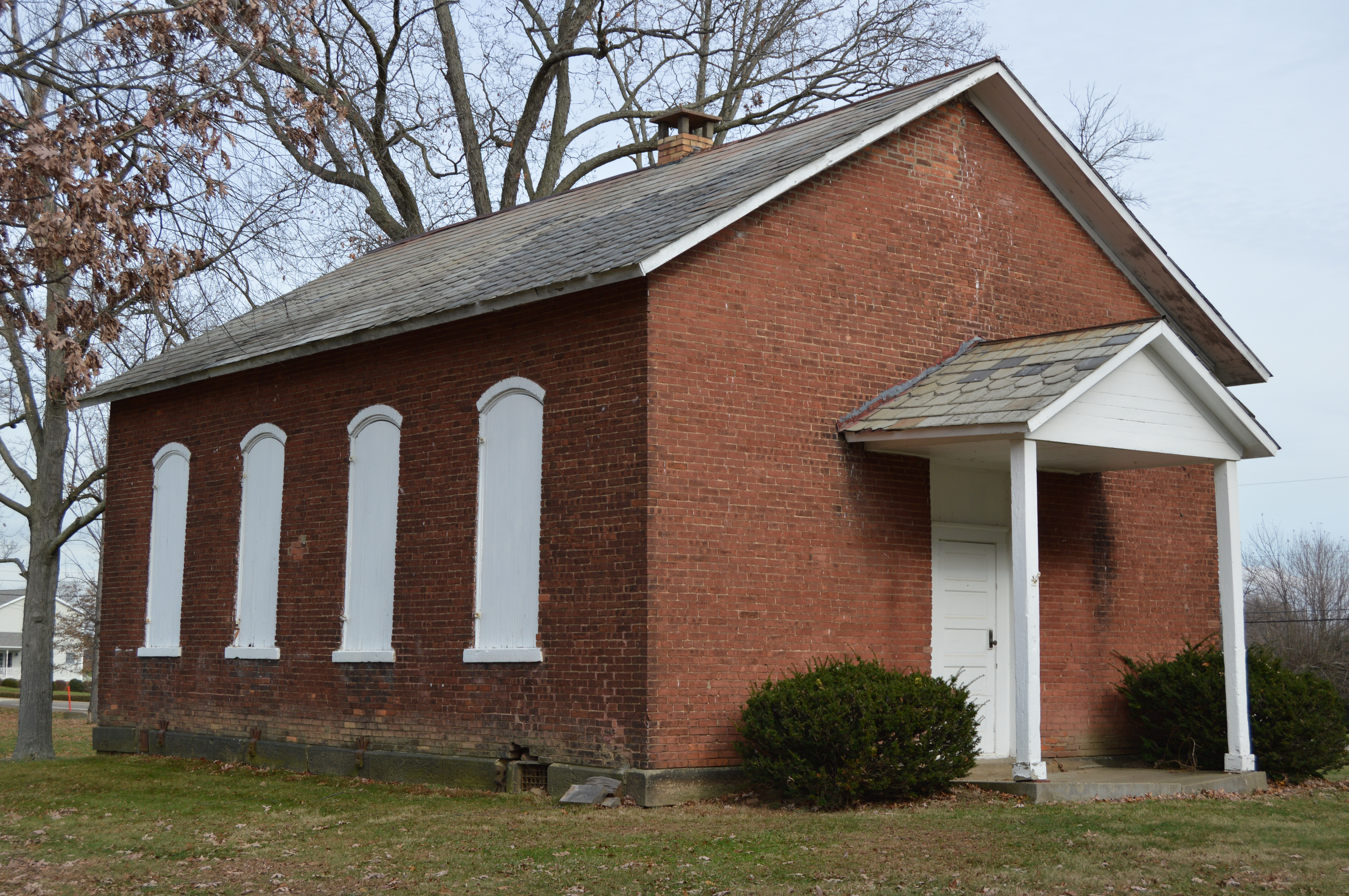 Front and western side of the former McKinley School #3, located on the northwestern corner of the junction of McKinley Road and the Thirty-seventh Street Extension in Chippewa Township, Beaver County, Pennsylvania, United States. It was built in 1872.